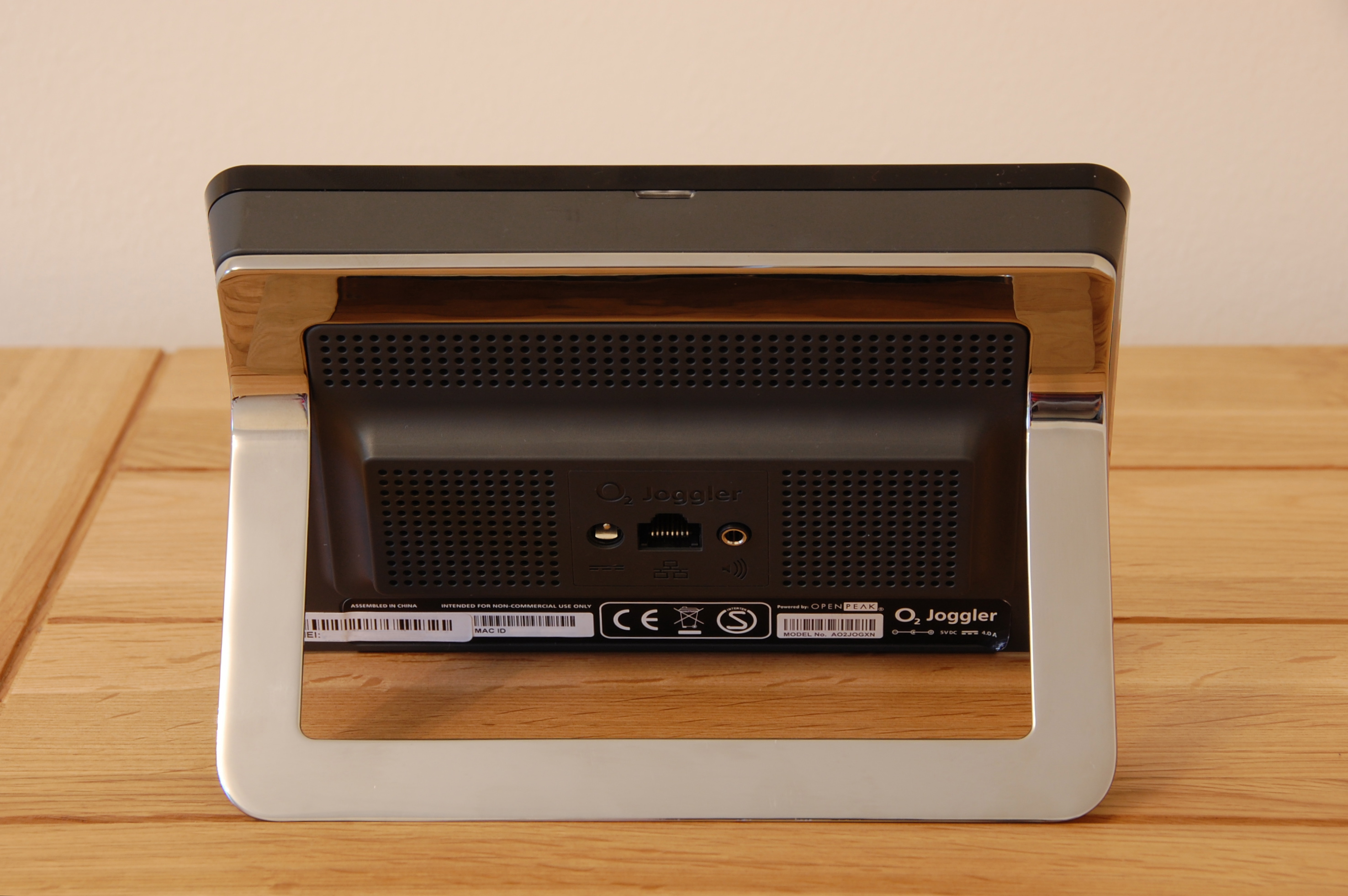 The rear of an O2 Joggler. IMEI and MAC address have been edited out.